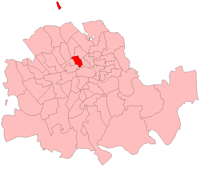 A map of Finsbury Central constituency within the Metropolitan Board of Works area, as it existed from 1885 to 1918.